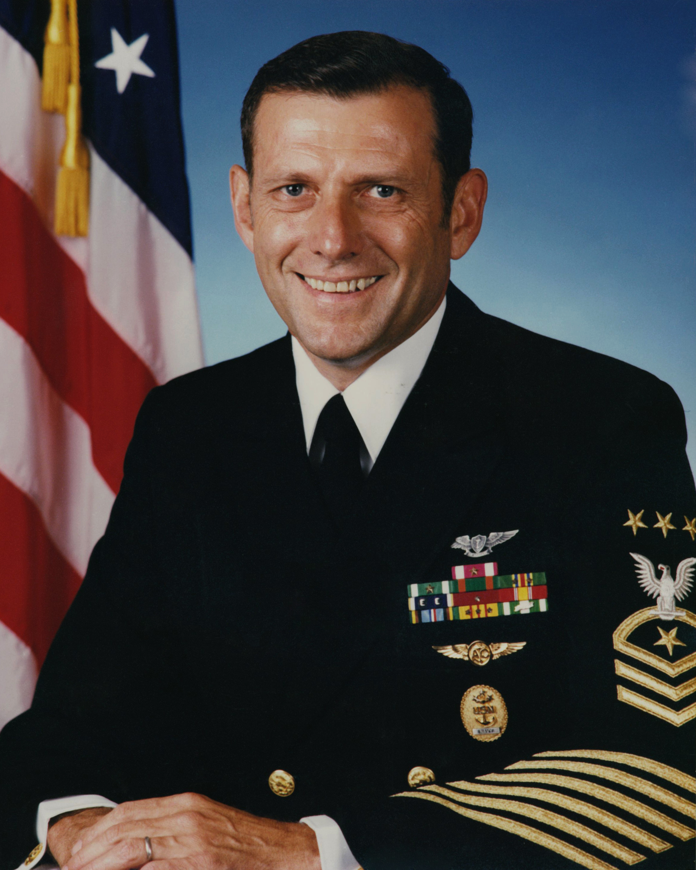 AVCM(AW) Duane R. Bushey, USN Seventh Master Chief Petty Officer of the Navy September 9, 1988 to August 28, 1992